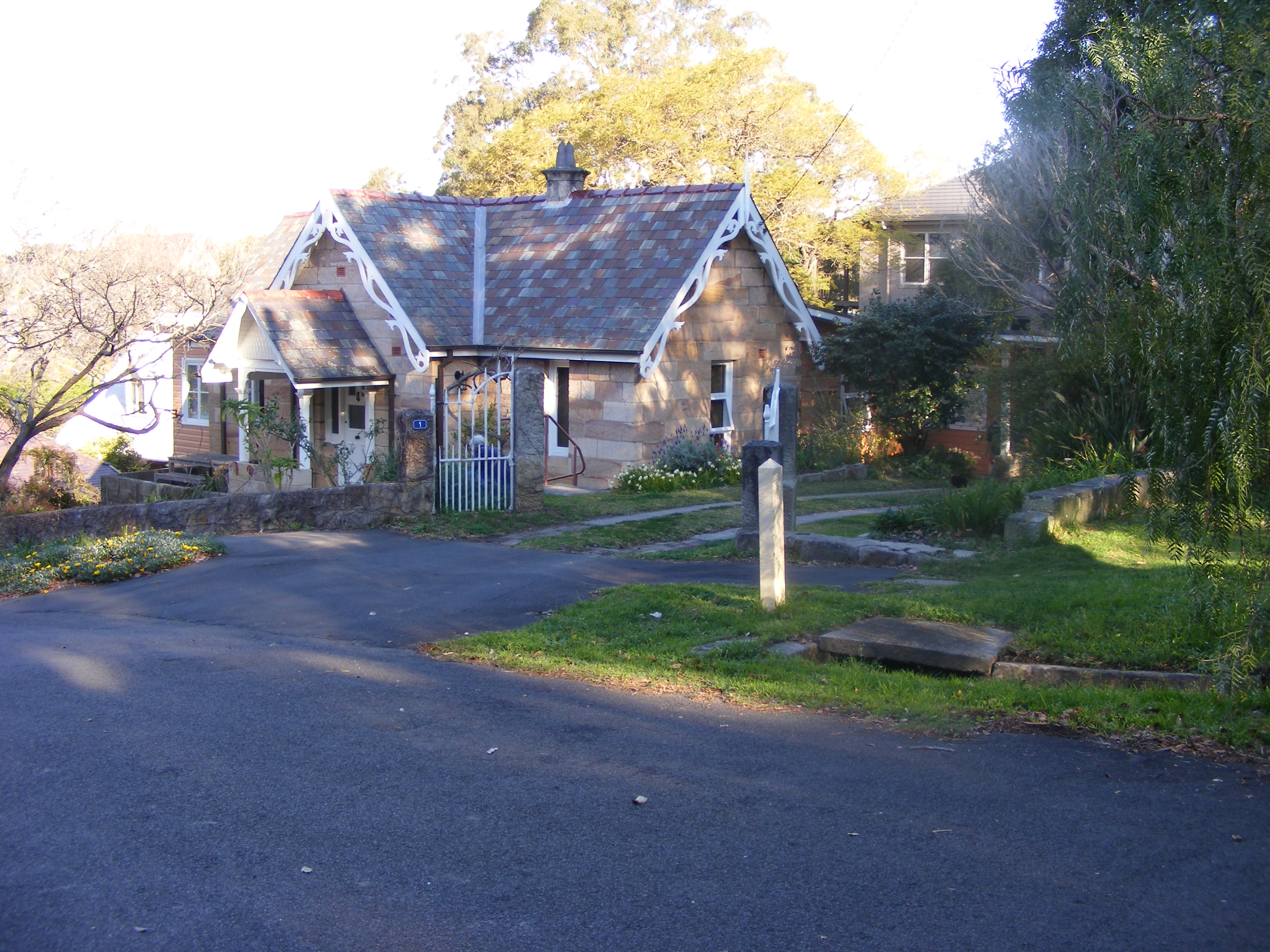 House, Hunters Hill, Sydney